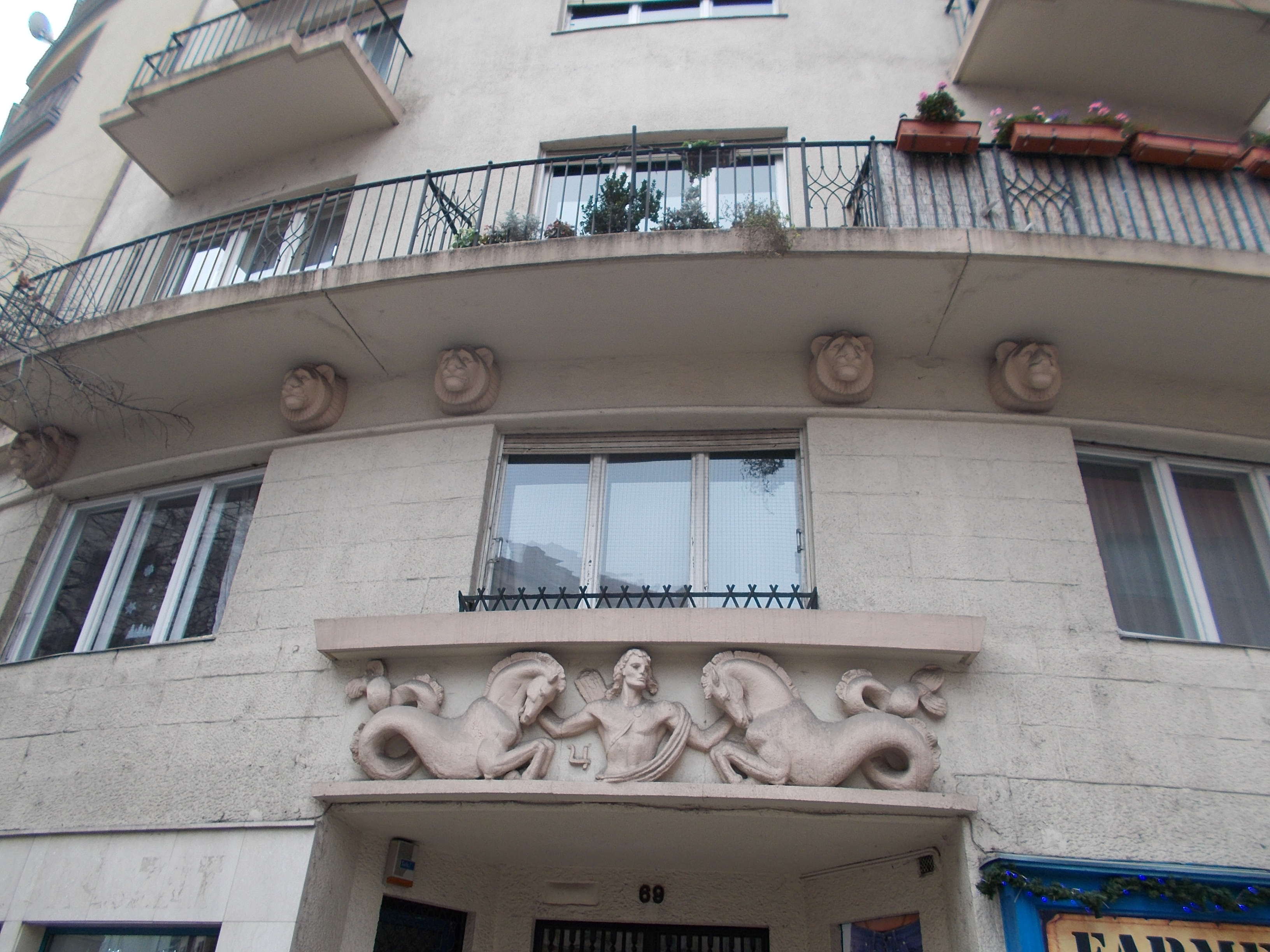 Reliefs. Horses with serpent tail, lion heads, Poseidon. Alice Lux works in 1939. - Margit Boulvard, Budapest District II, Hungary